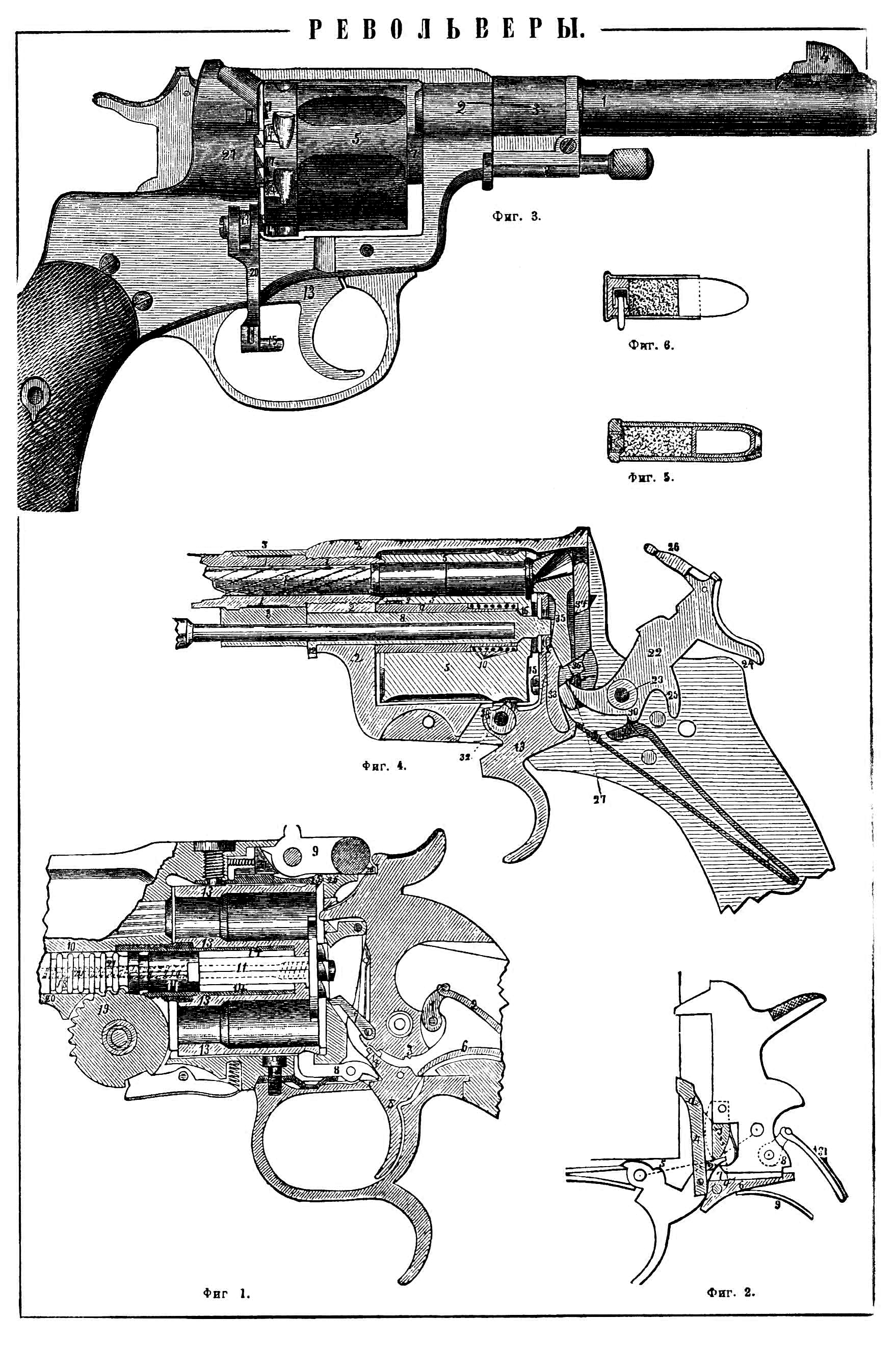 Illustration from Brockhaus and Efron Encyclopedic Dictionary (1890—1907)